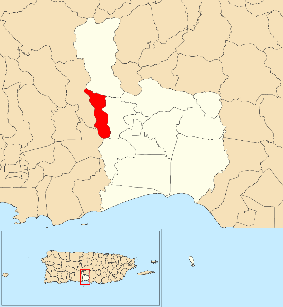 Callabo, Juana Díaz, Puerto Rico locator map